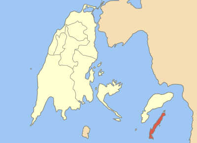 Locator map of Kastos community (Κοινότητα Καστού) in Lefkada prefecture (Νομός Λευκάδας) in Greece.